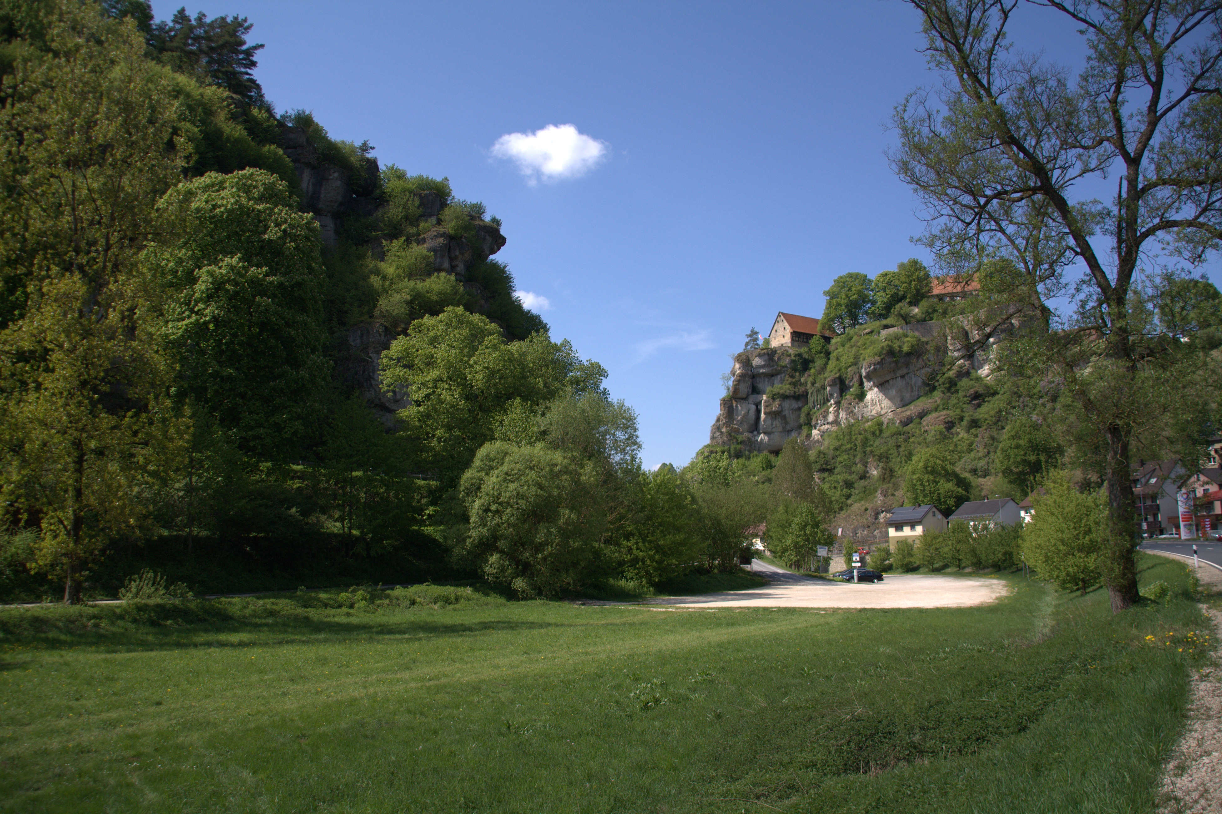 duitsland - bayern - oberfranken - fränkische schweiz - pottenstein - burg